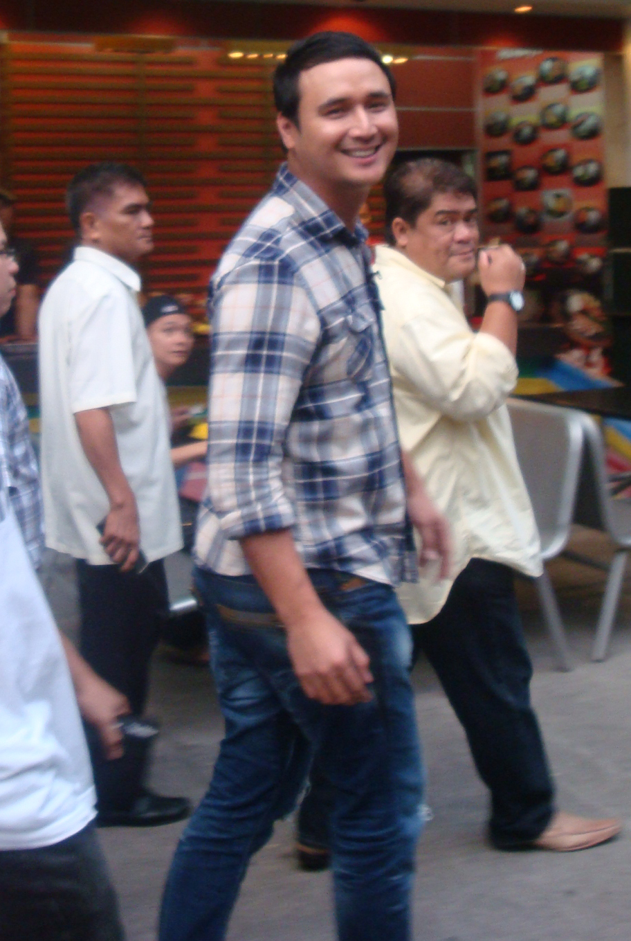 Photo of John Estrada, taken by the author's aunt during a Happy Yipee Yehey! taping on November 28, 2011.